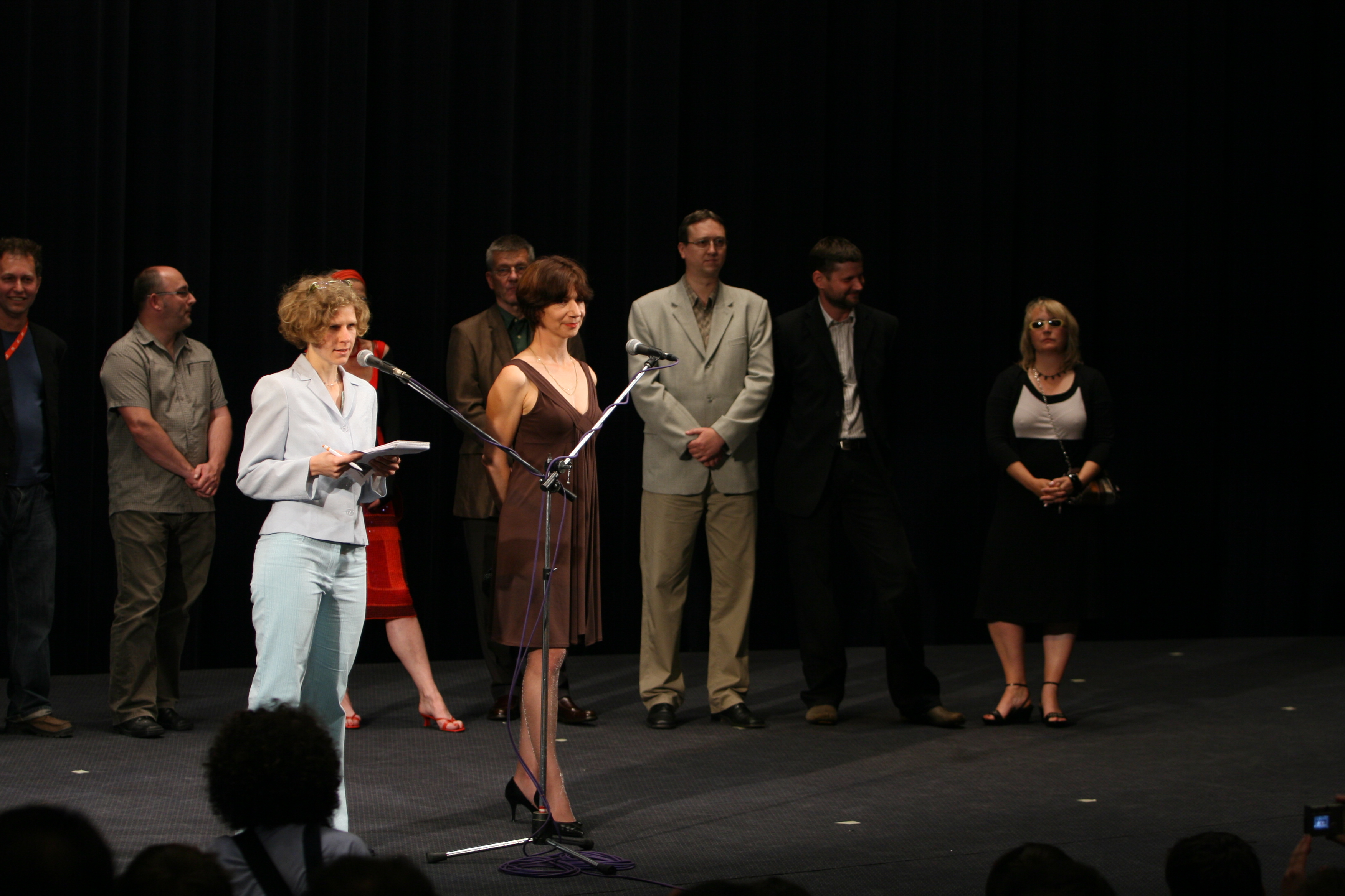 Director Michela Pavlátová (right) introduces her film Děti noci at Karlovy Vary International Film Festival